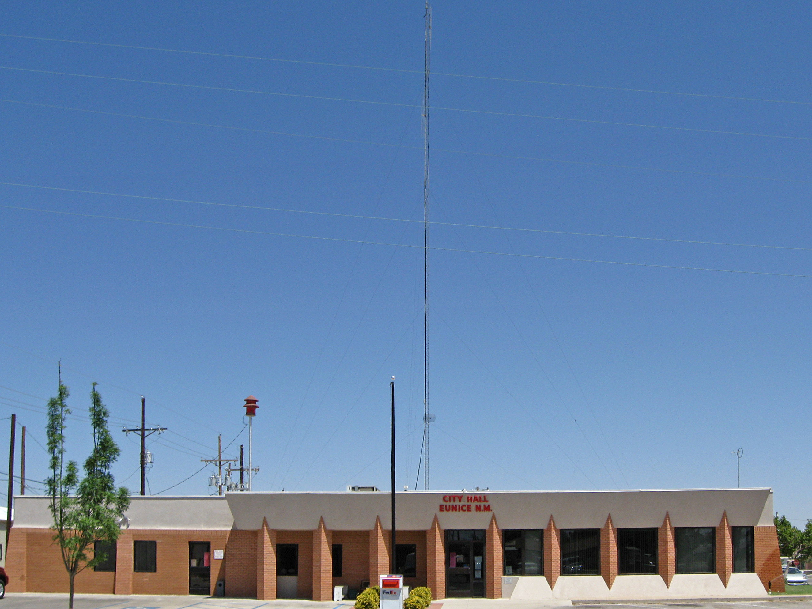 Eunice (New Mexico) City Hall, located at 1106 Avenue J.